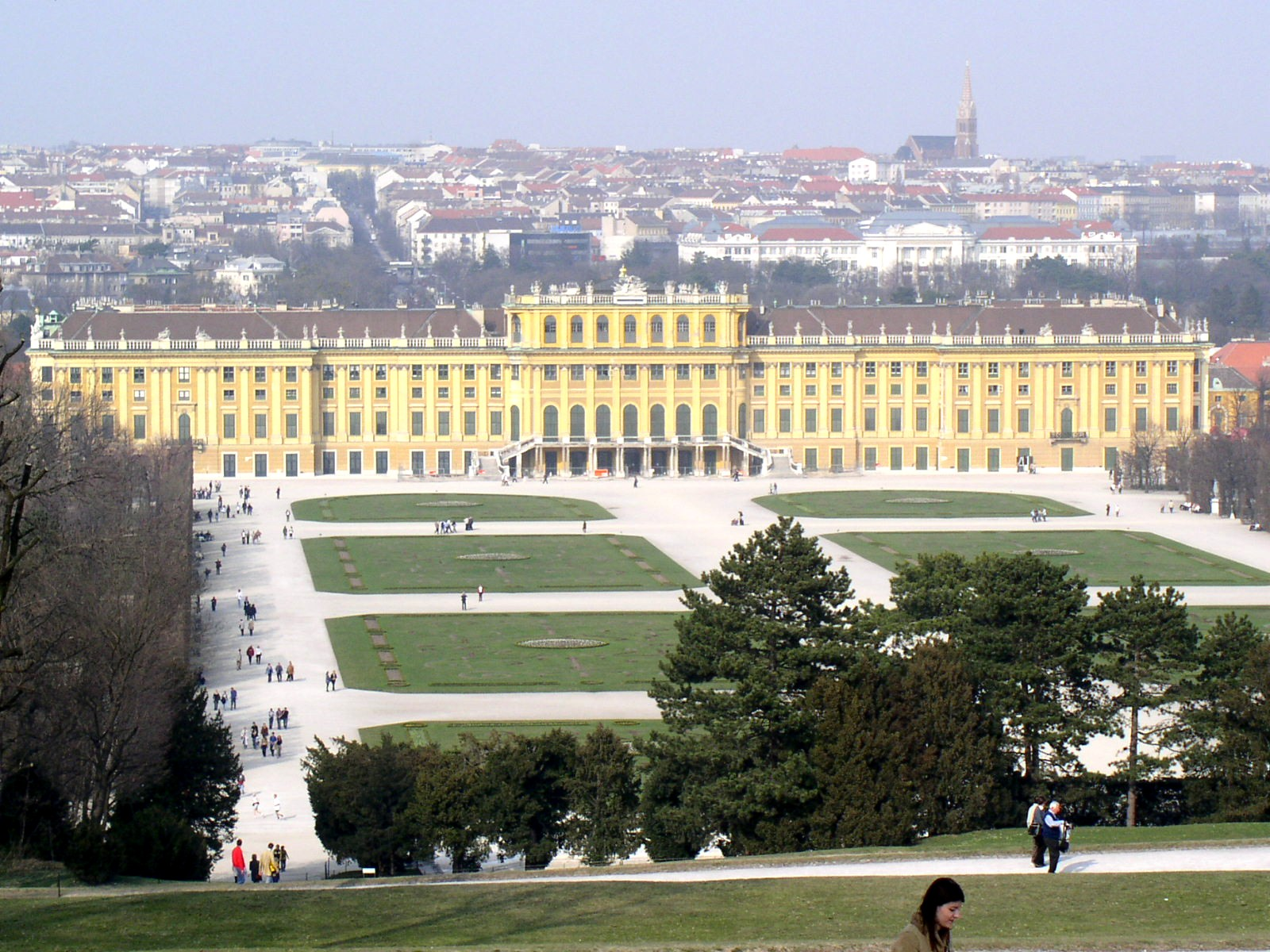 Austria, Vienna, Schönbrunn Palace